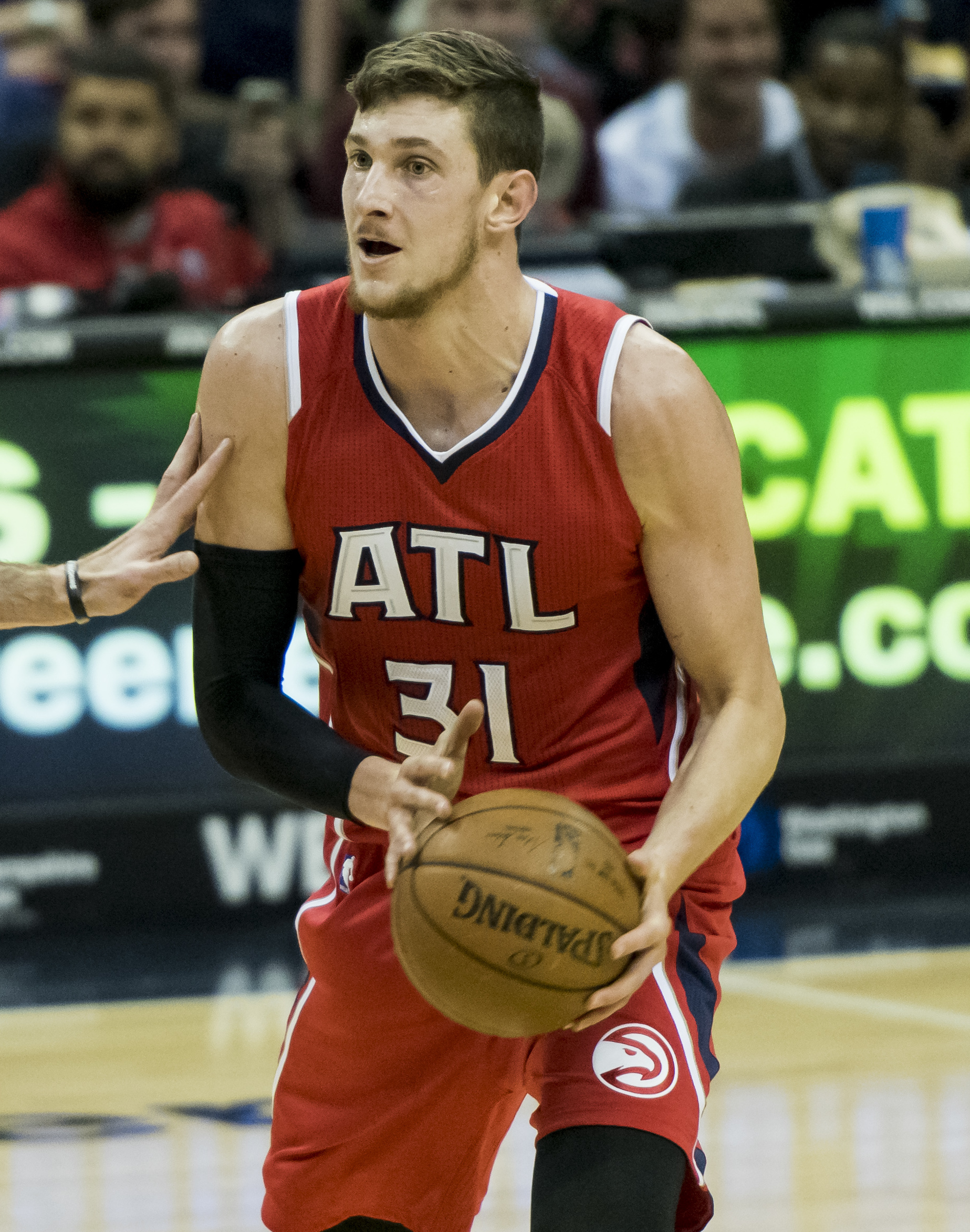 mike muscala atlanta hawks v washington dc verizon centre 2015 marcin gortat